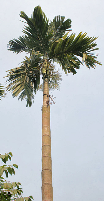 Supari Palm or Betelnut Areca catechu. Kolkata, West Bengal, India